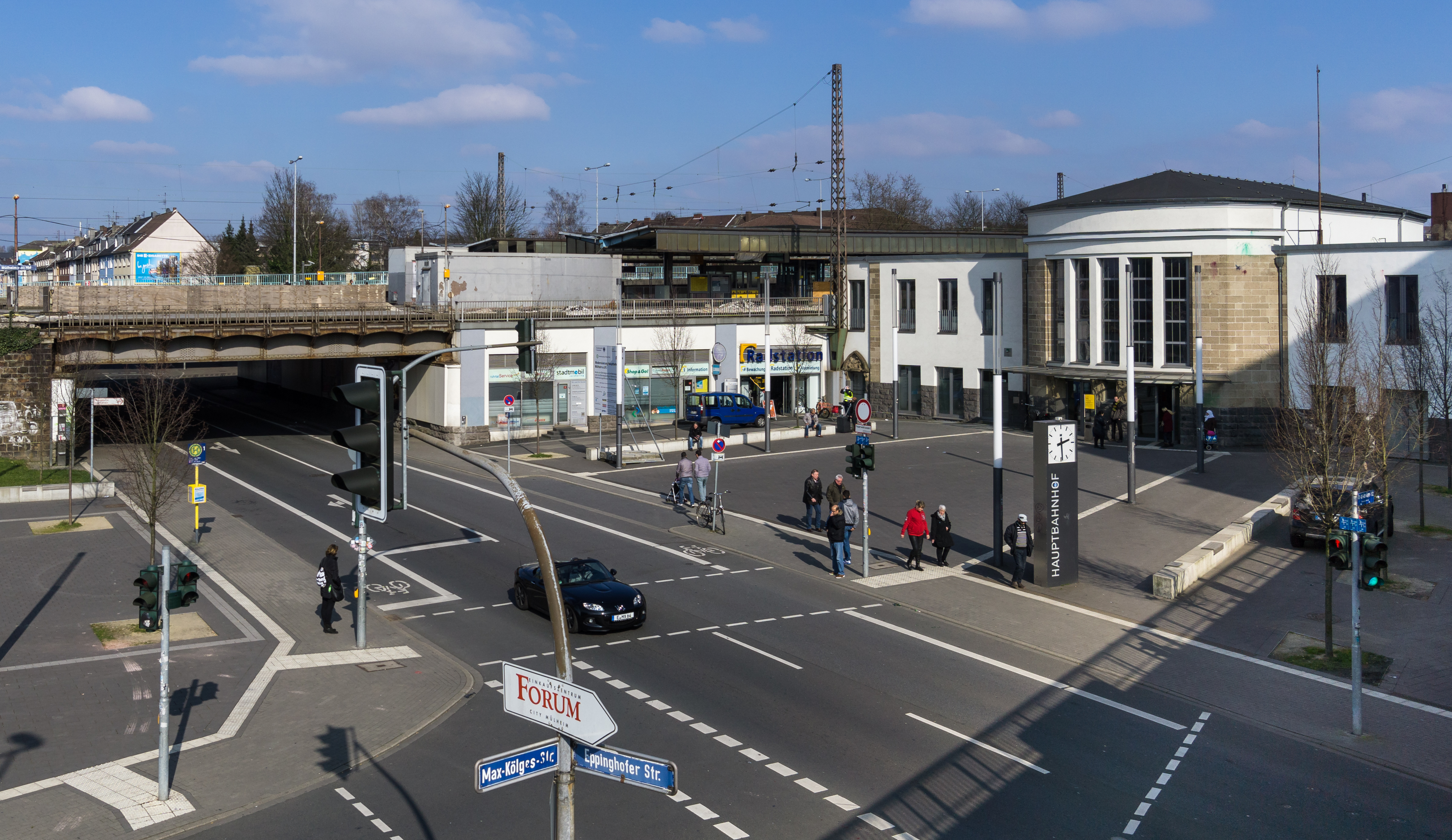 Mülheim (Ruhr) central station with station building